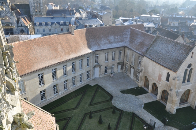 The Museum of Art and Archaeology of Senlis in Senlis, Oise, France, viewed from Senlis Cathedral.